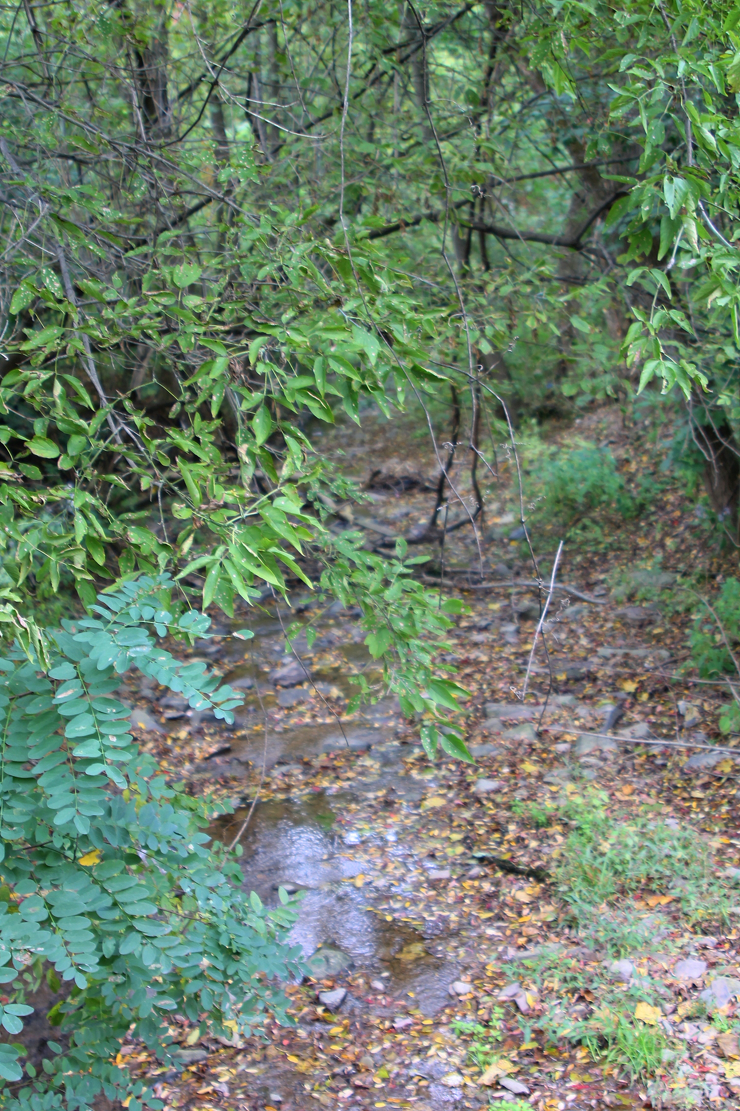 Corn Run in northern Catawissa, Pennsylvania